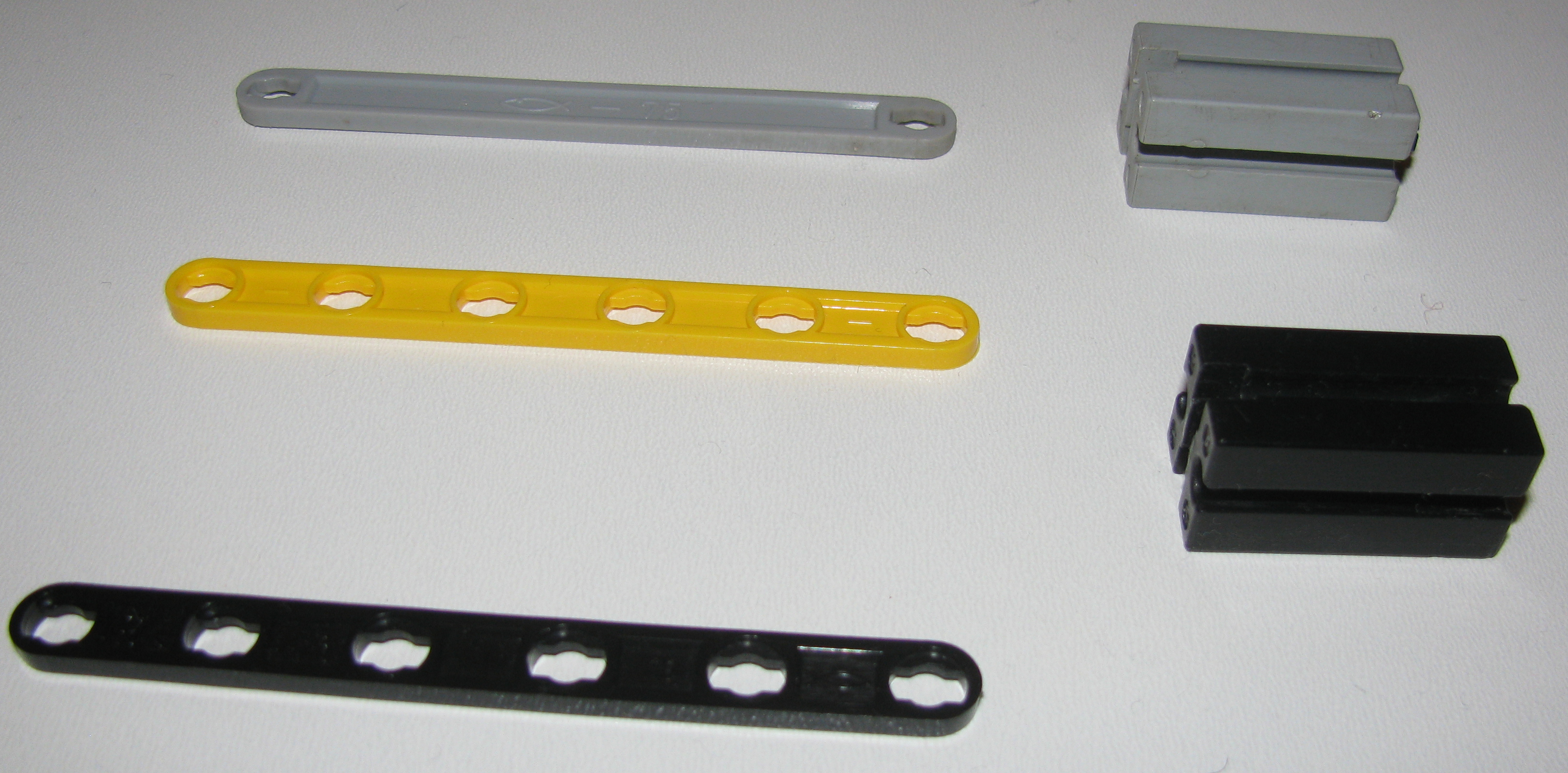 Fischertechnik bricks and statik bricks in different colors.